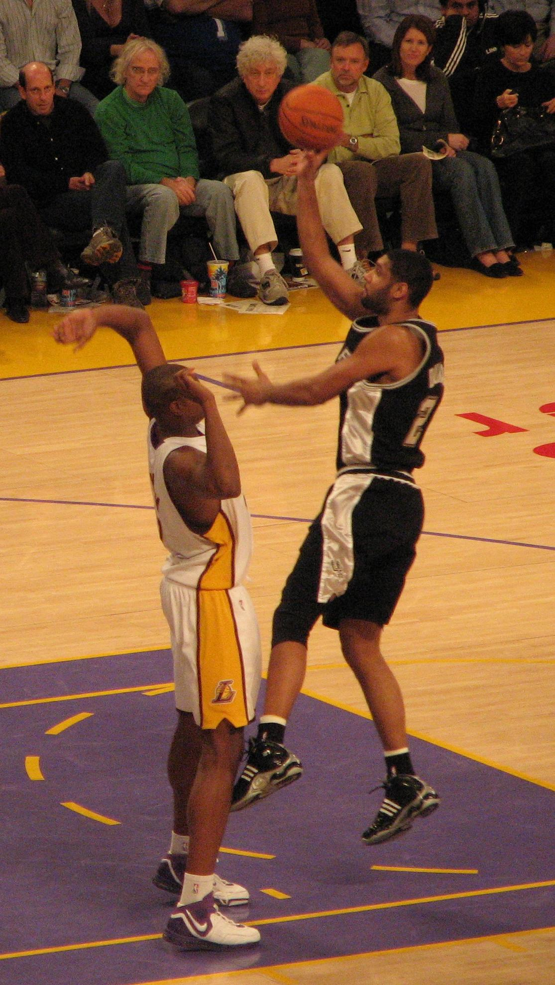 Photo of the San Antonio Spurs Tim Duncan. Cropped By User:Quadzilla99.